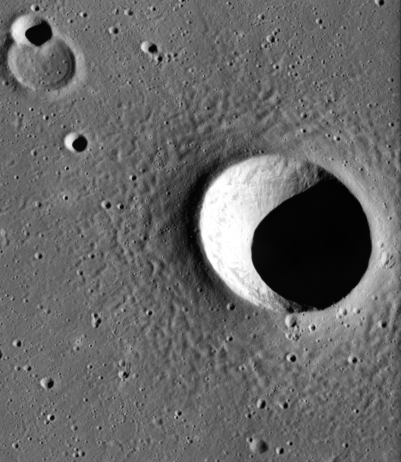 Oblique view of Wollaston crater, on the moon, facing north. Mare-filled crater in upper left is unnamed.